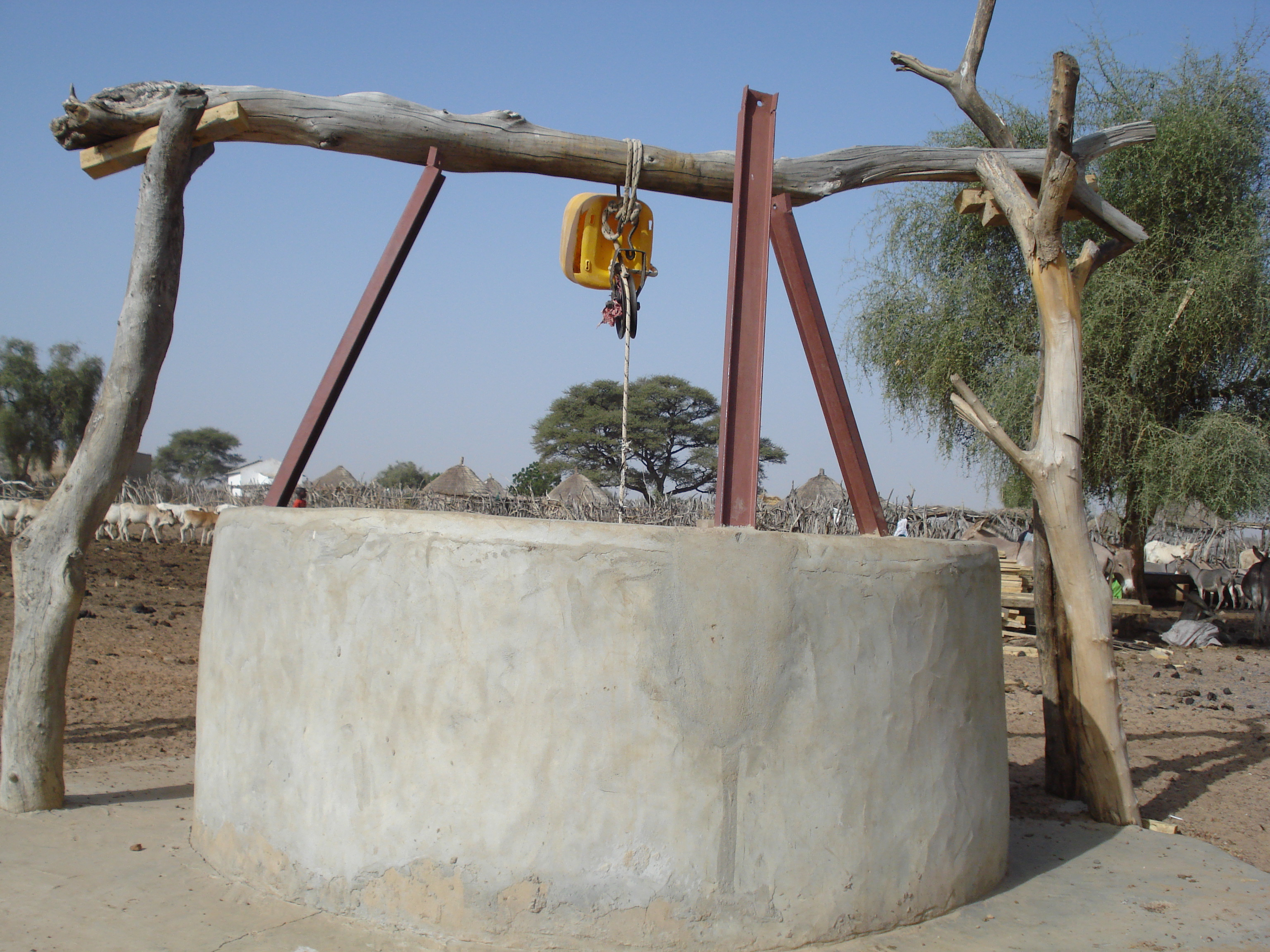 text